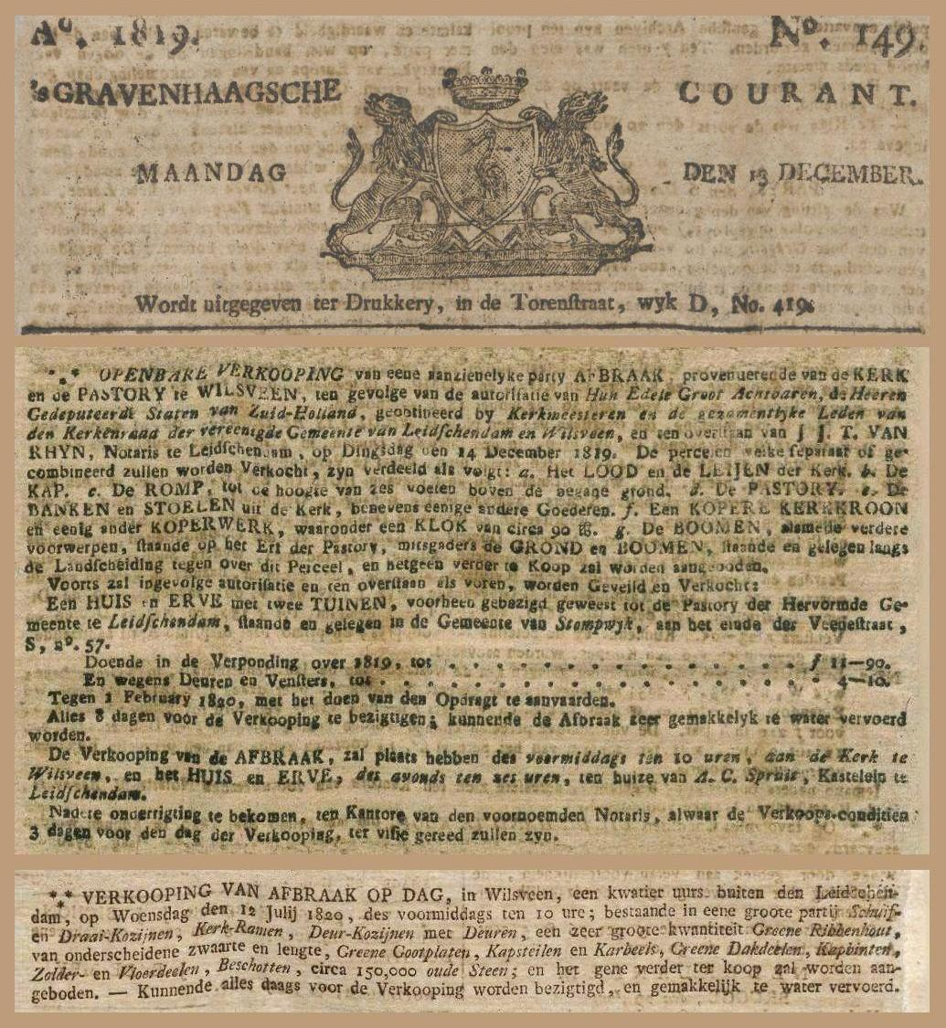 Announcement of the public auction of building materials and furnitures, obtained from the demolition of the church of Wilsveen (near Voorburg, Province of South Holland, The Netherlands). The image is a compilation of two advertisements, both from the 's Gravenhaagsche Courant, from 13 December 1819 and 3 July 1820 respectively.